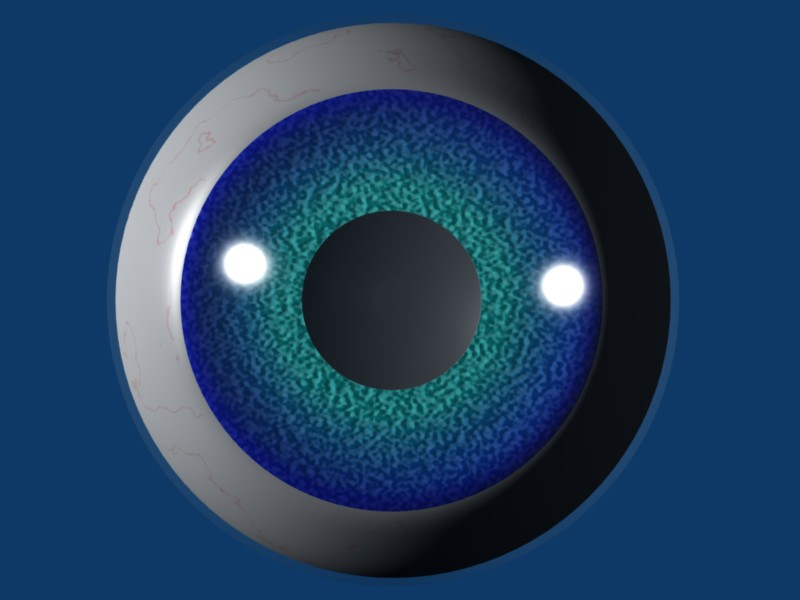 simple 3d eye model